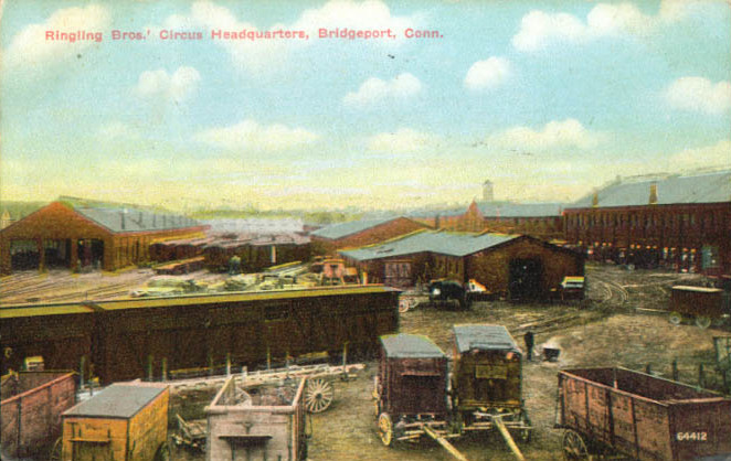 Postcard picture of Ringling Brothers Circus train cars and wagons in Bridgeport, 1911 postmark, according to Web page